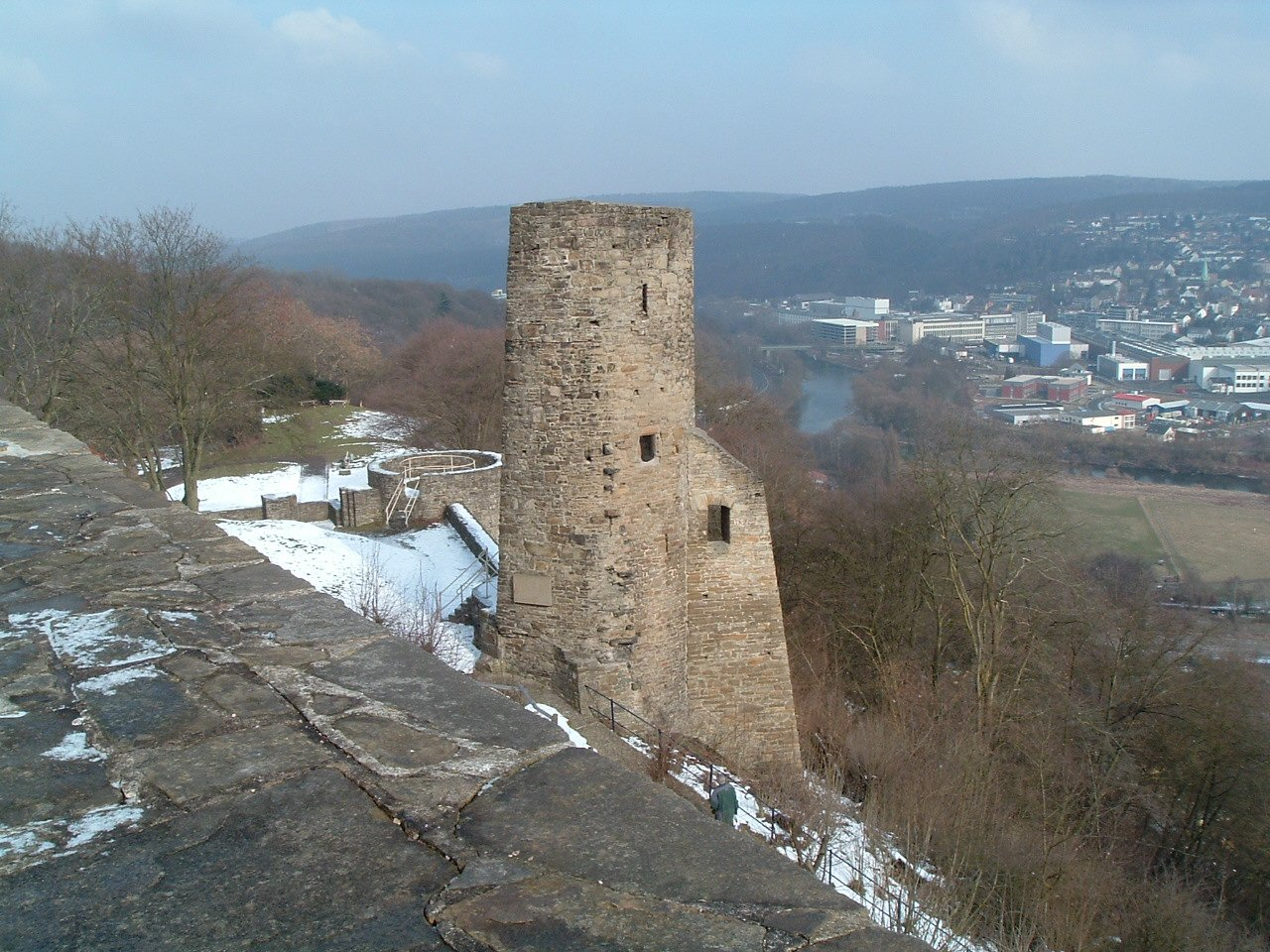 The castle "Burg Volmarstein" is a ruin in Wetter (Ruhr)-Volmarstein near Hagen, Germany. It was built in 1100 by archbishop Friedrich I. von Schwarzenburg.